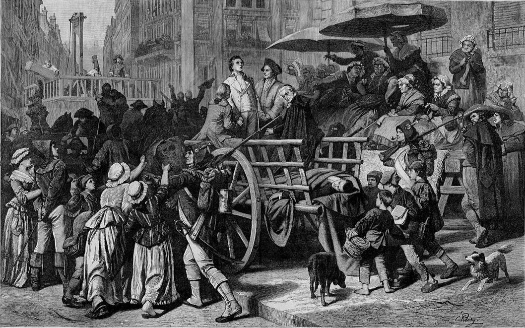 Print from Harpers Weekly, August 1881, entitled The Girondists, from a painting by Carl von Piloty. French tricoteuses used a single Tunisian hook (also known as Afghan hook) for tricot crochet, which creates a flat fabric. Later illustrations mistakenly showed them using three needles to create a tubular fabric, e.g. stockings, on the misunderstanding that the "tri" part of the word "tricoteuse" represented three needles, and because three-needle knitting was common in the 19th century. A closer view of this part of the picture, showing the three needles, is available here: File:Die Gartenlaube (1880) 657.jpg